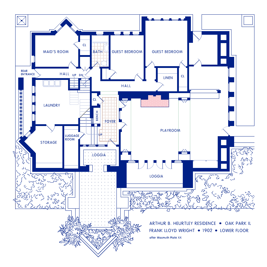 Lower floor plan of the Arthur Heurtley residence, Oak Park IL, designed by Frank Lloyd Wright, 1902. After Wasmuth Plate XX.